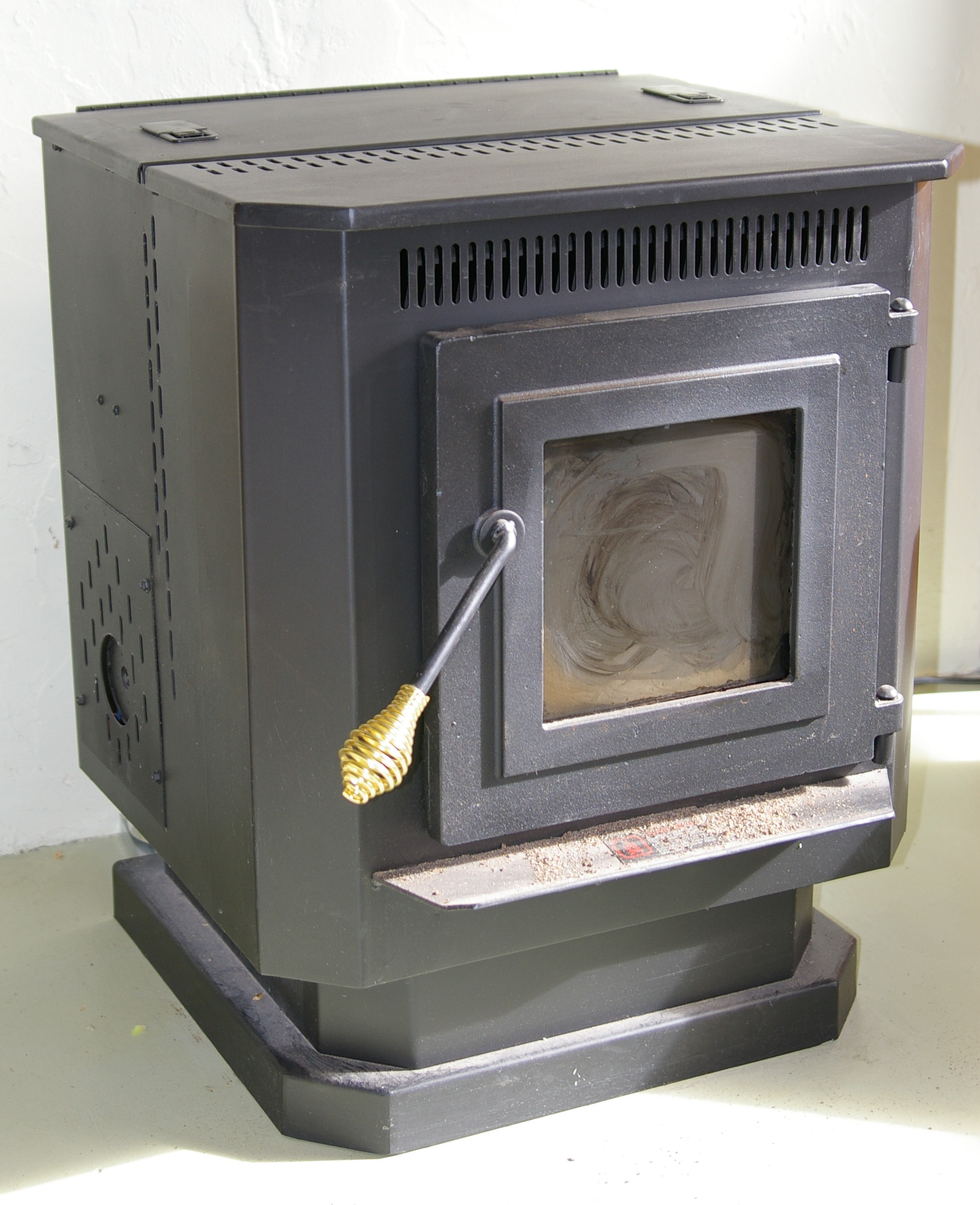 England's Stove Works pellet stove. The burn pot from this stove is also available on commons.